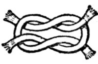 Fig. 686.—Bourchier Knot.